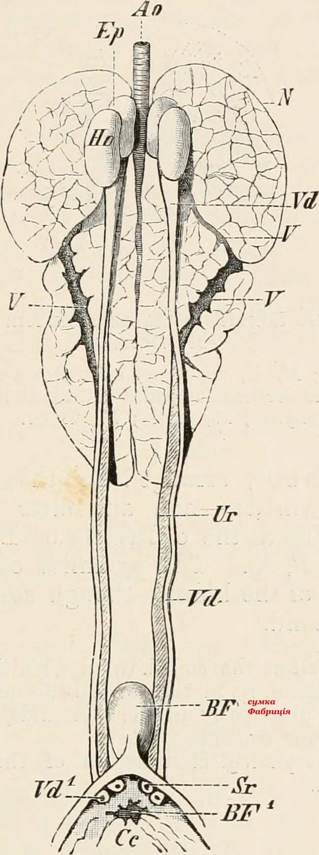 The picture depicts the location of the bursa of fabricius. This will aid viewers in visually understanding the location.